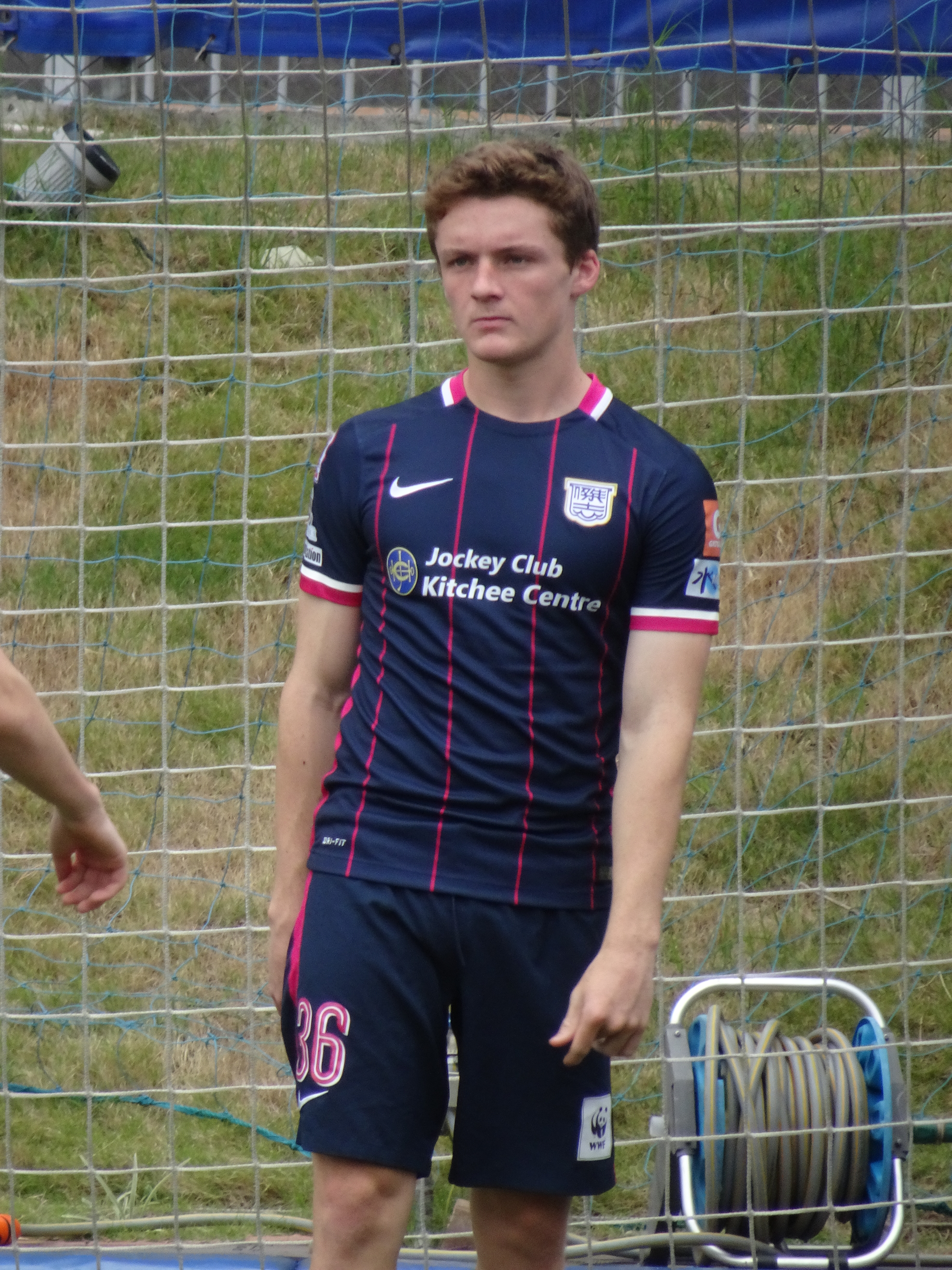 Robert Victor Alexander Stamp (23 Mar 2017, Kitchee vs Pahang FA, Friendly, Jockey Club Kitchee Centre) 中文（香港）: 史譚 (23 Mar 2017, 傑志 vs 彭亨, 友賽, 賽馬會傑志中心)